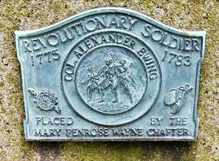 Tombstone marker of Colonel Alexander Ewing